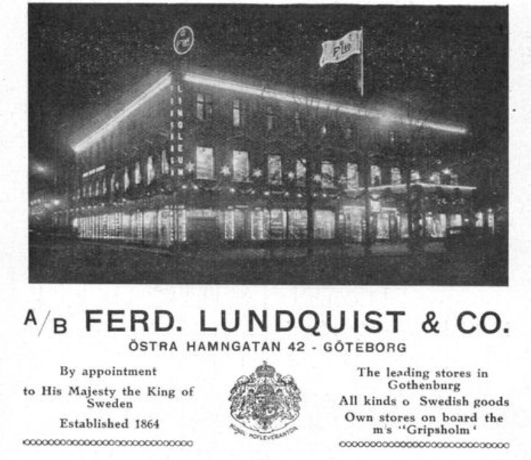 Advertisement for the department store Ferd. Lundquist & Co. from 1930, the largest and most well-known departement store in Gothenburg at the time. From a tourist guide of Gothenburg from 1930. Today, the NK department store is located here.